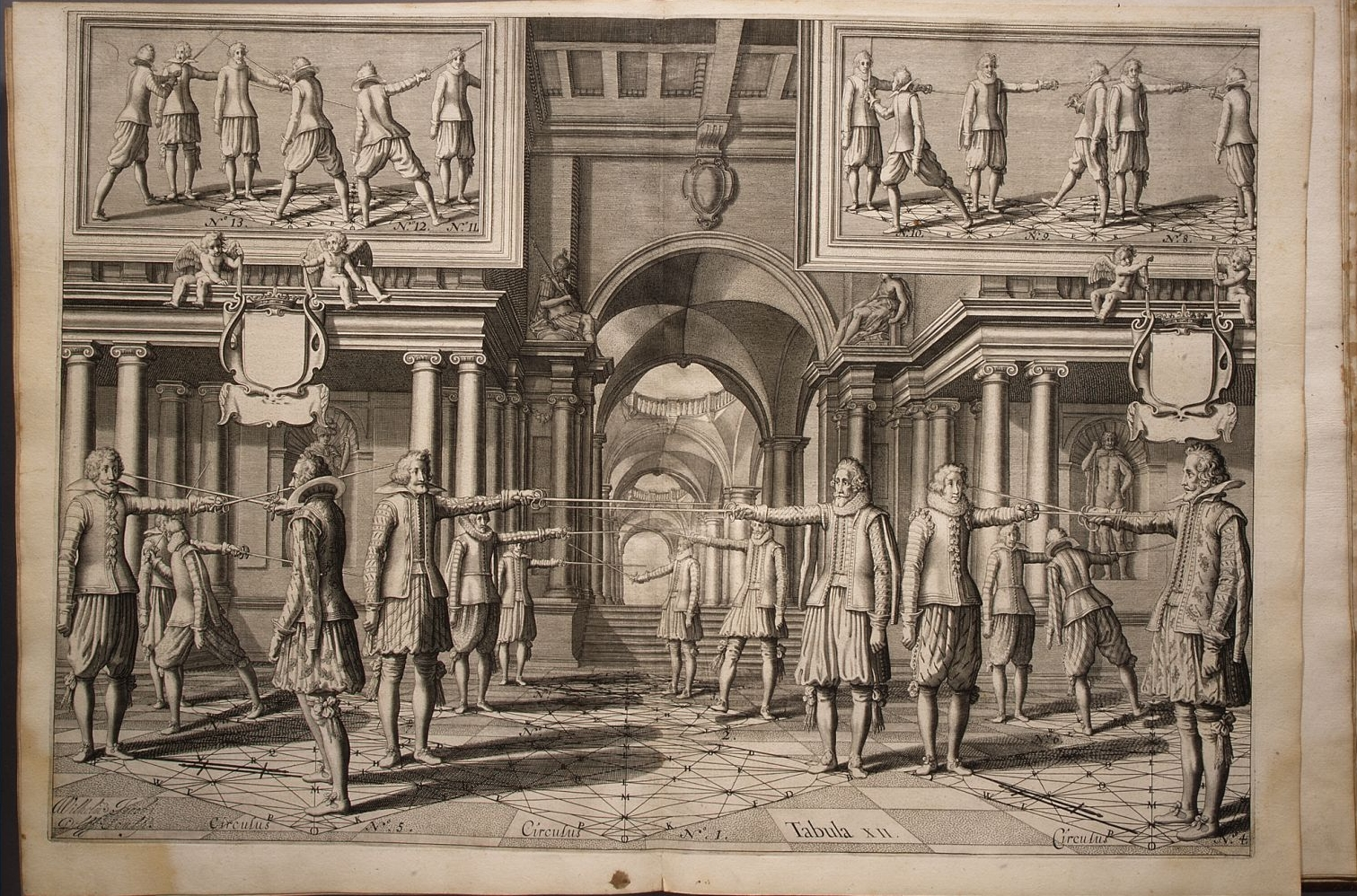 Academie de l'espee (Academy of the Sword)